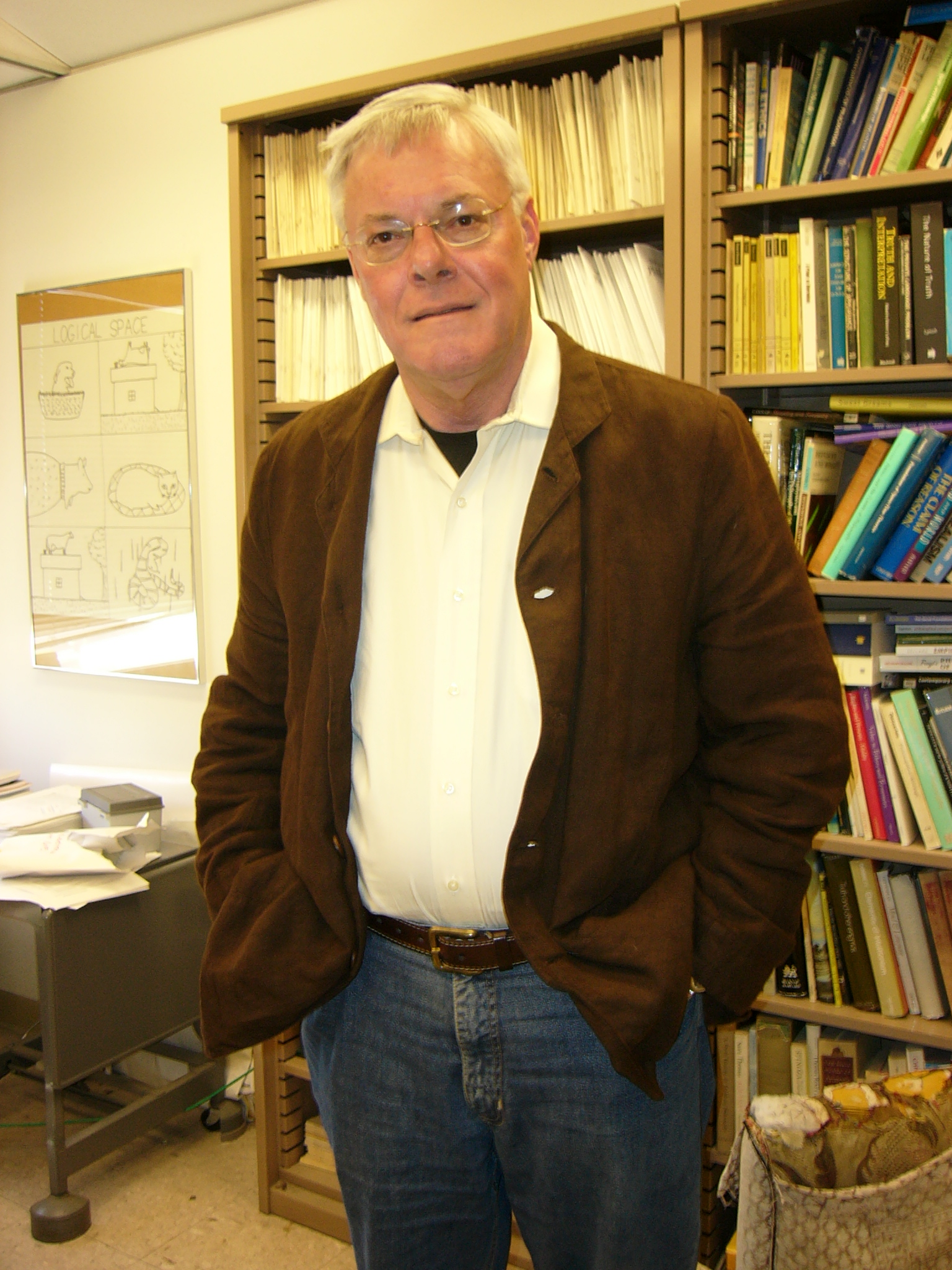 Publicity shot of John Koethe. (A request for a slightly larger size has also been sent.)